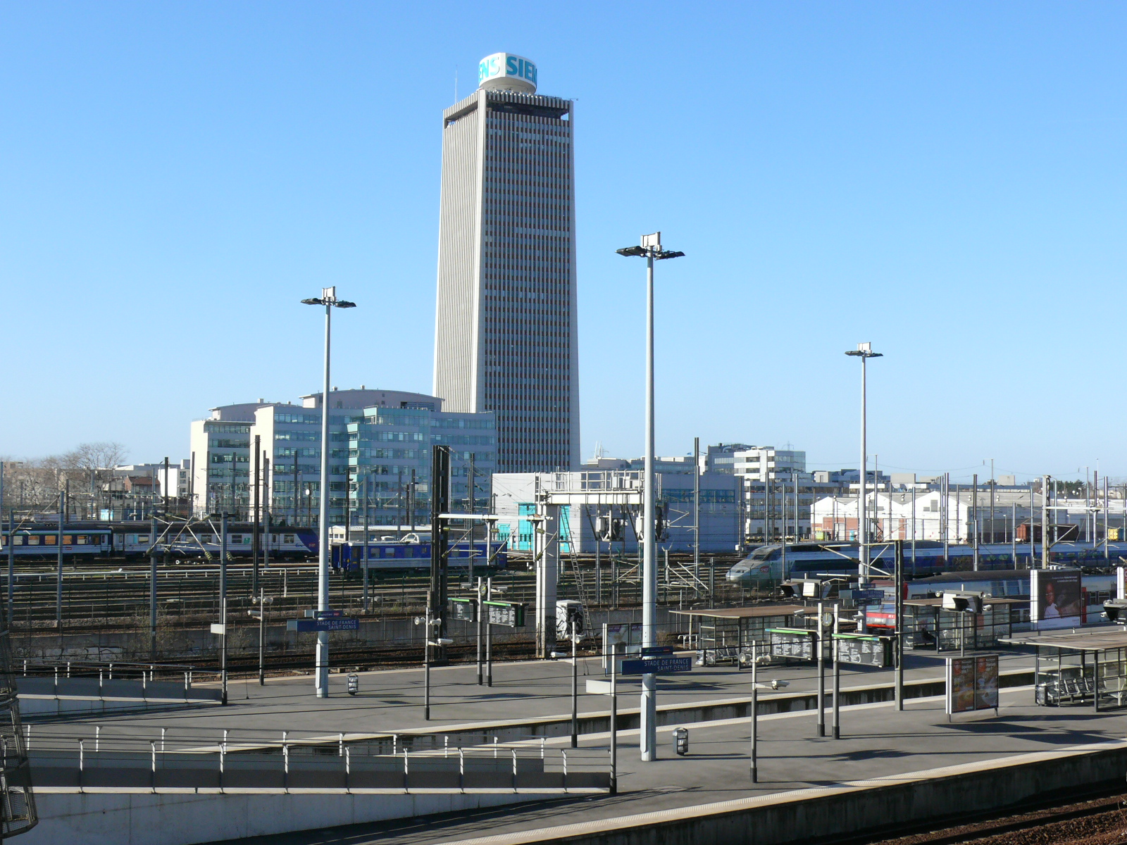 View of Stade de France – Saint-Denis with Tour Pleyel in the background.